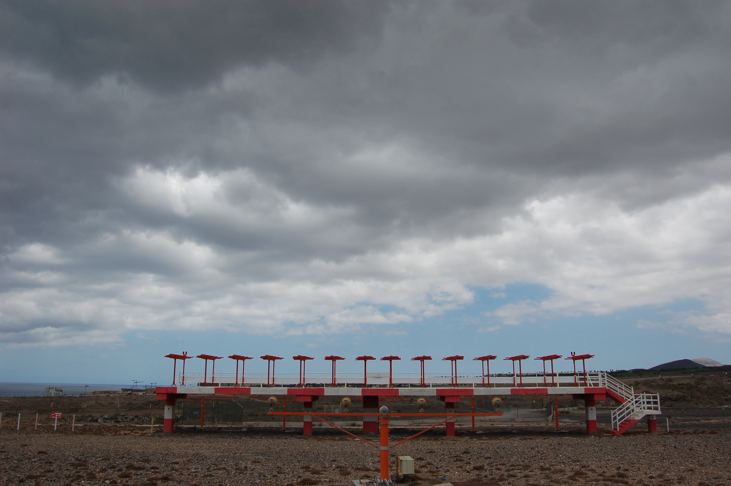 Pictures taken at Tenerife South Airport GCTS-TFS Localizer of the Instrumental Landing System at GCTS